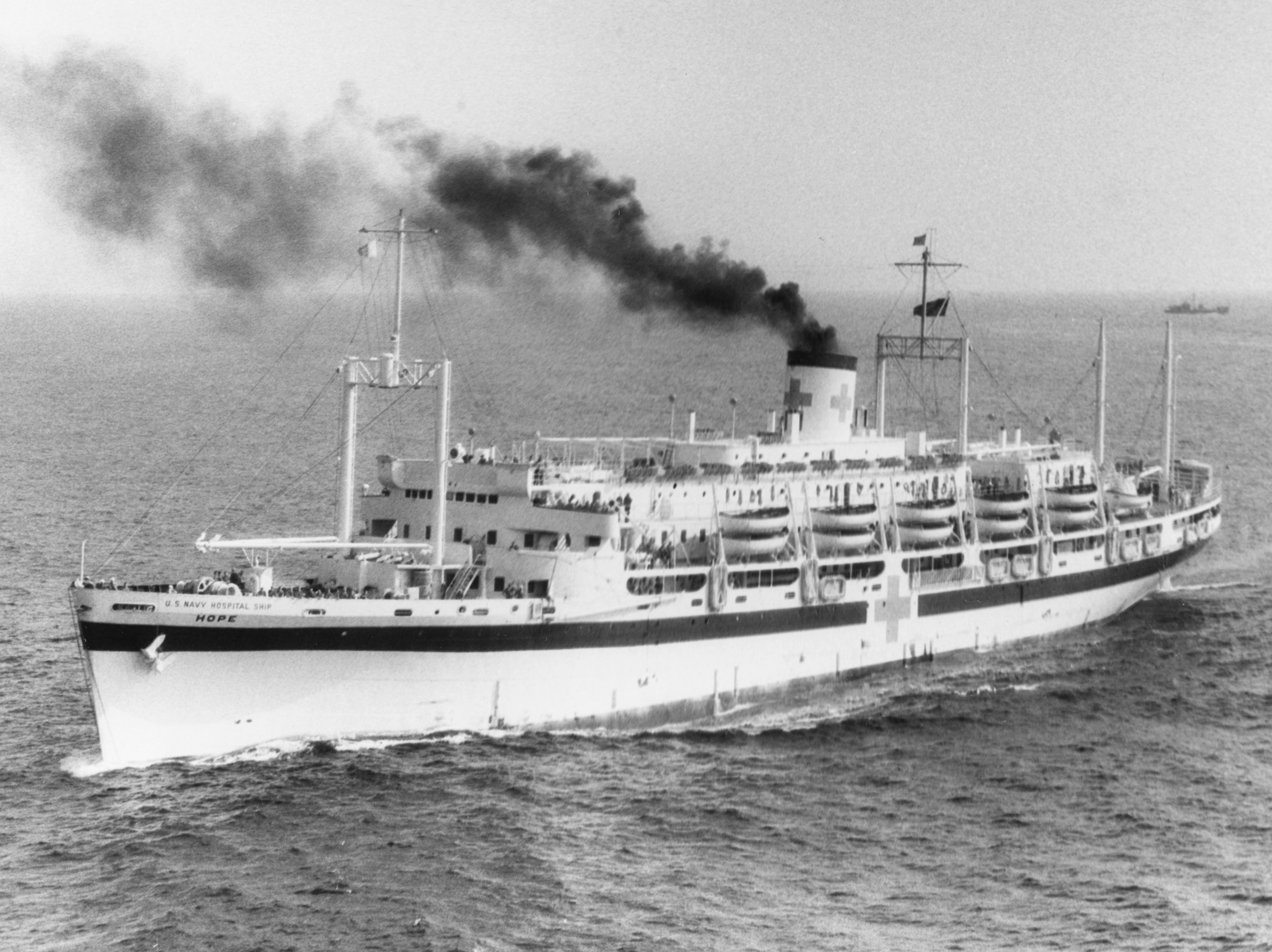 The U.S. Navy hospital ship USS Hope (AH-7) underway on 30 August 1944, photographed from a blimp of squadron ZP-31.